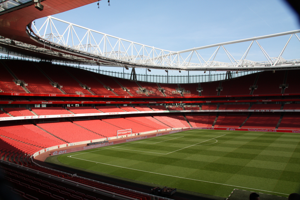 Location : Emirates Stadium, London